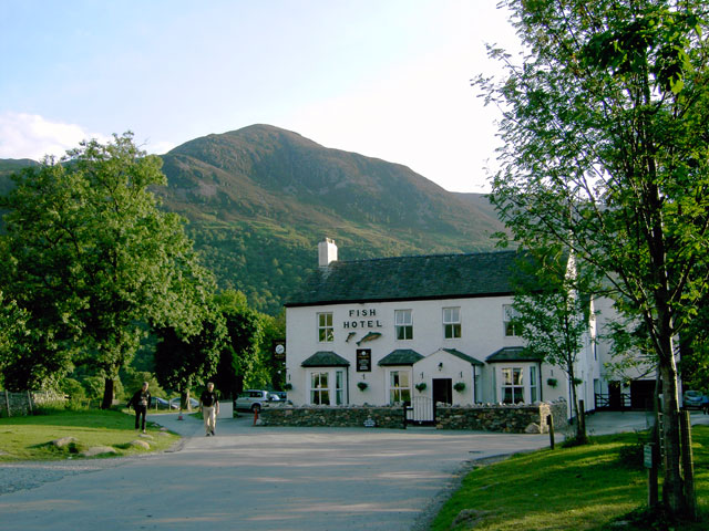 The Fish Hotel, Buttermere Dodd rises behind the pub.